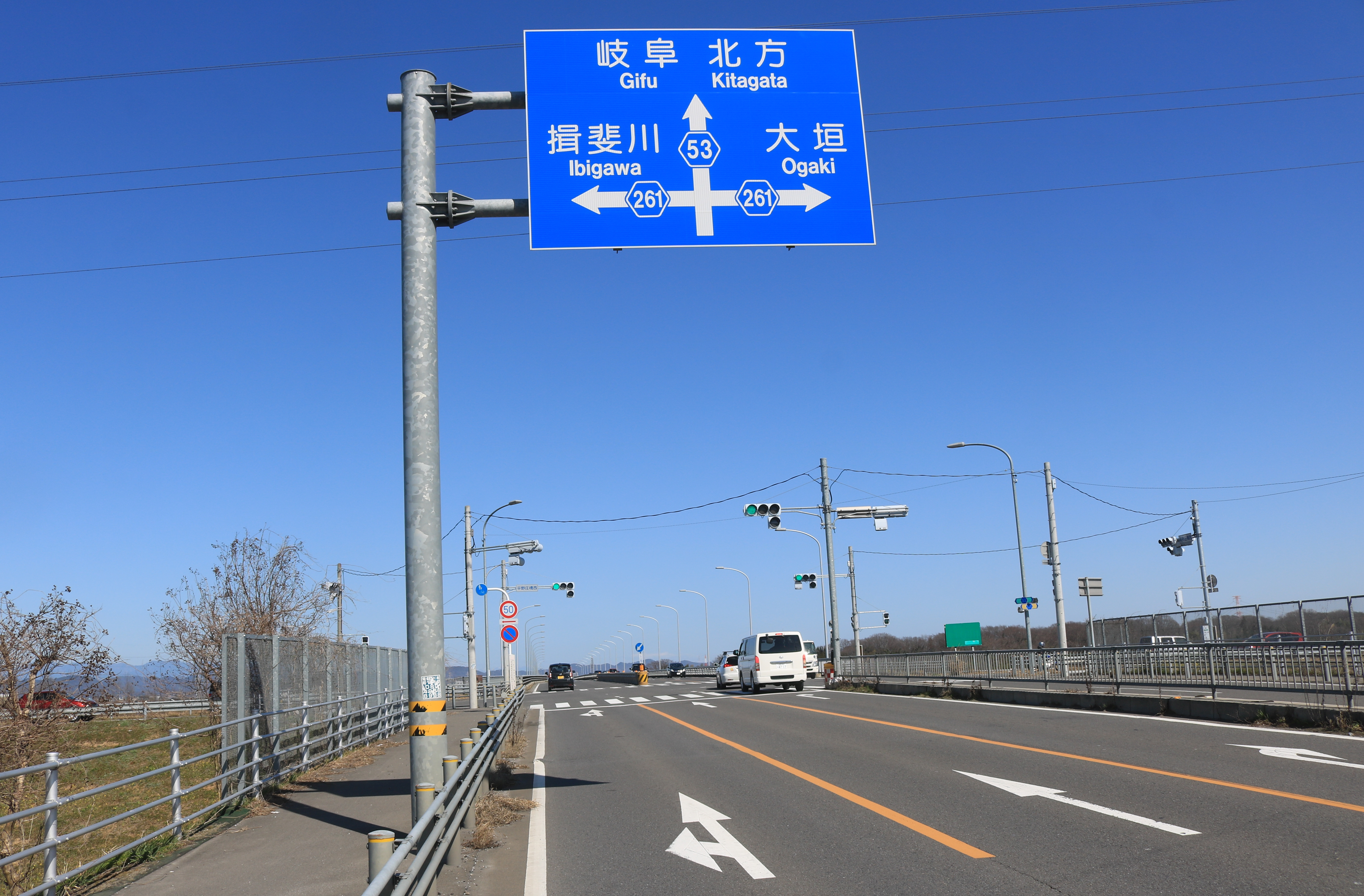 Gifu Prefectural Road Route 53 and Gifu Prefectural Road Route 261 in Gogo, Gifu Prefecture, Japan.